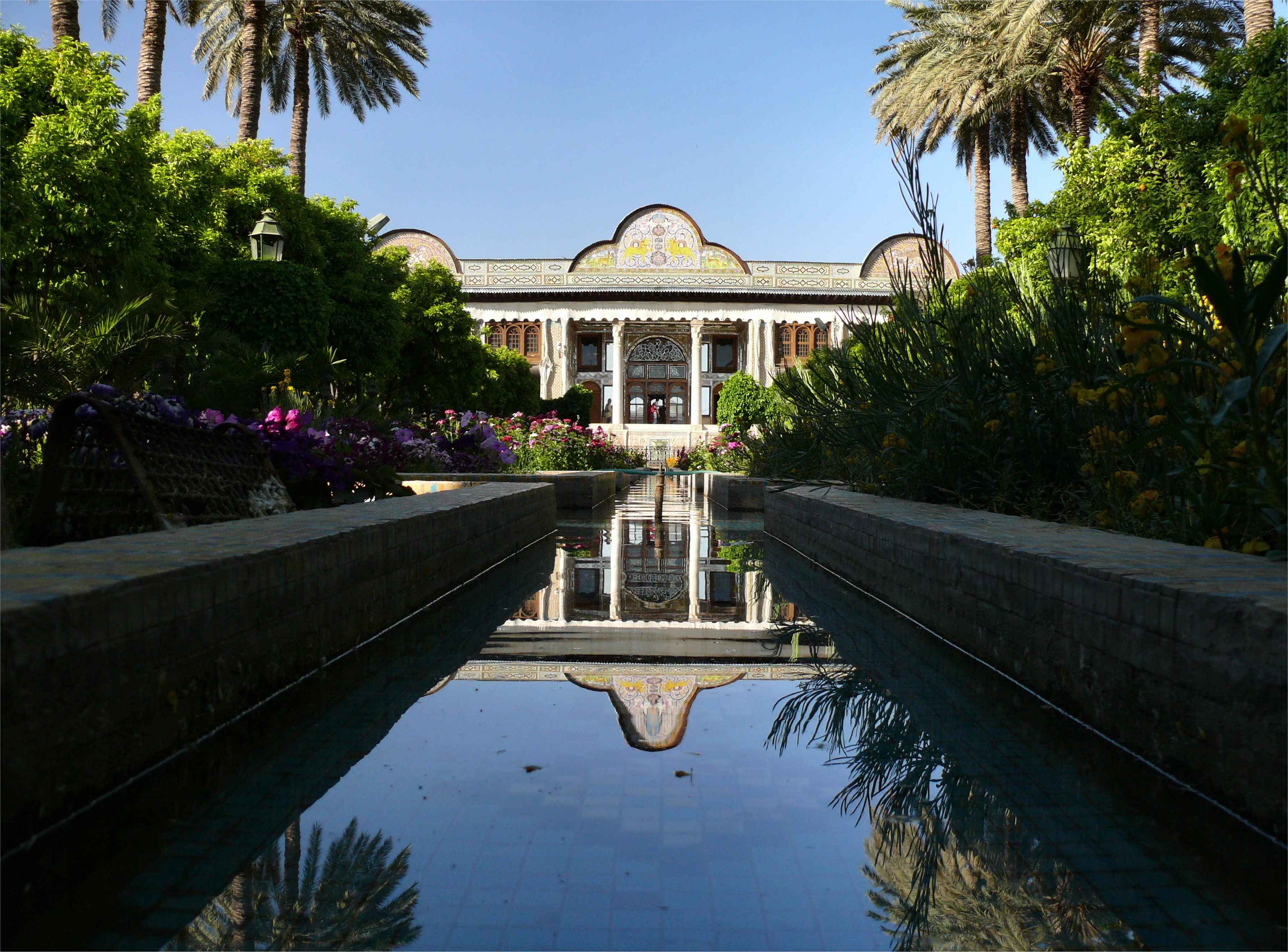 Reflection of the Bagh-e Narenjestan (orange garden of Eram Garden) and the khaneh Ghavam (Ghavam—Qavam house) at Shiraz. As its typical 19th-century architecture shows, this palace was built during the Qajar era for the local governor, from whom it took the name. During the 1950s it hosted the Asian institute directed by Pr Arthur Upham Pope, now, it belongs to Shiraz University, and hosts a museum. The angle was an idea of my daughter Katy.